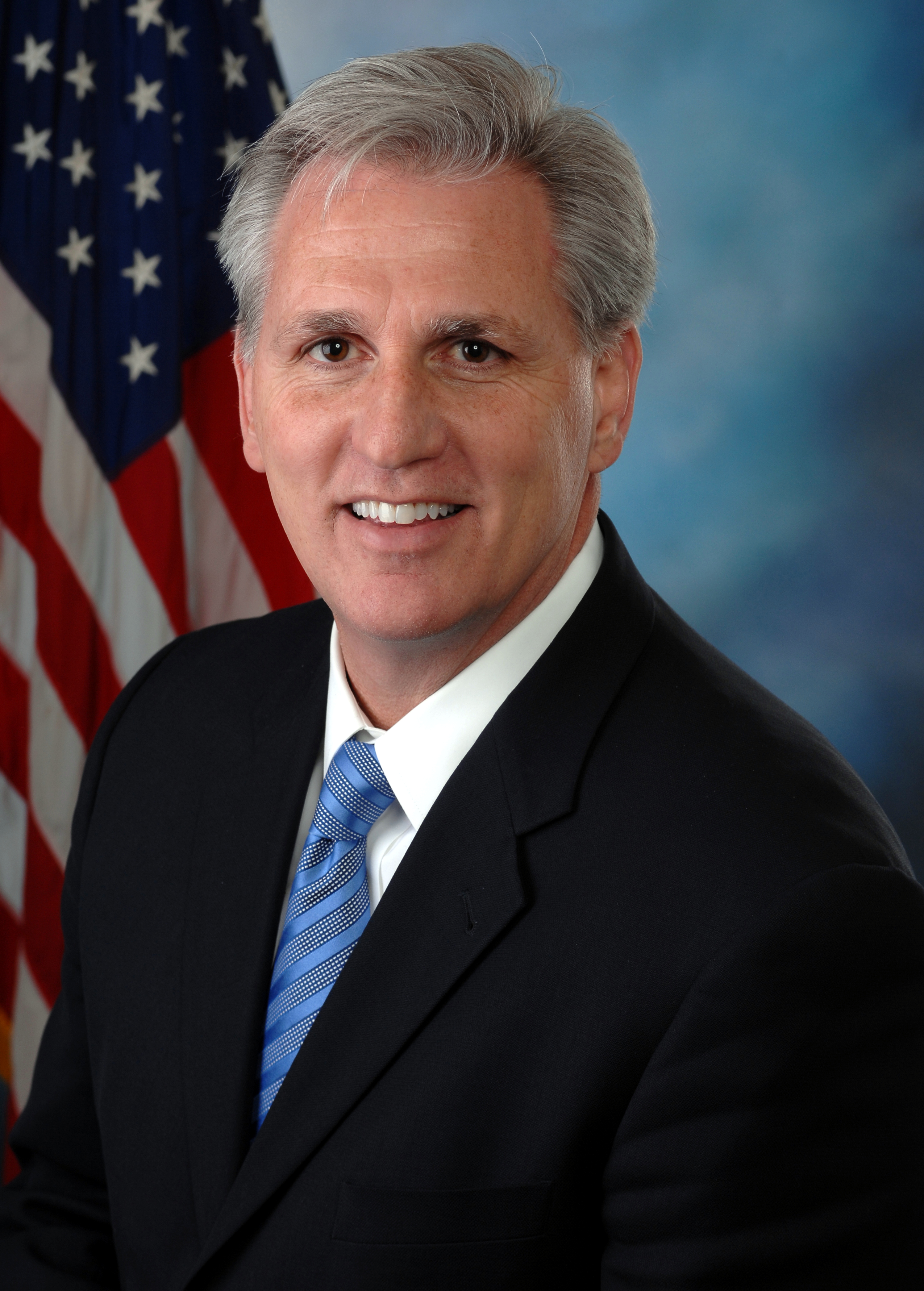 Kevin McCarthy's House Majority Leader official photo